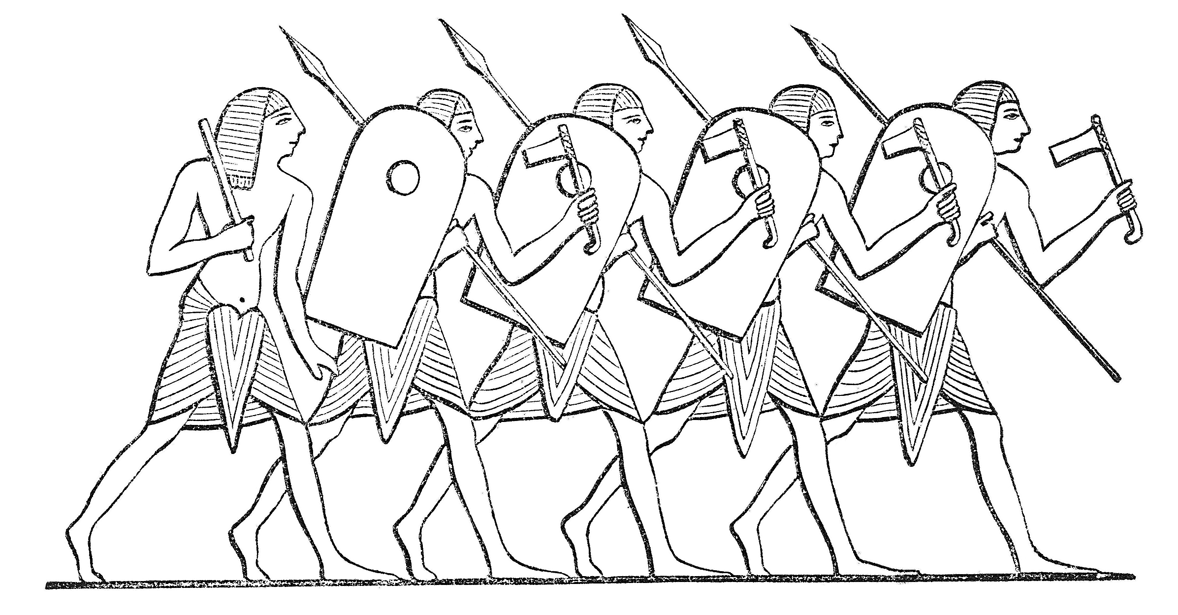 Illustration from "Illustrerad verldshistoria utgifven av E. Wallis. volume I": Egyptian infantry.